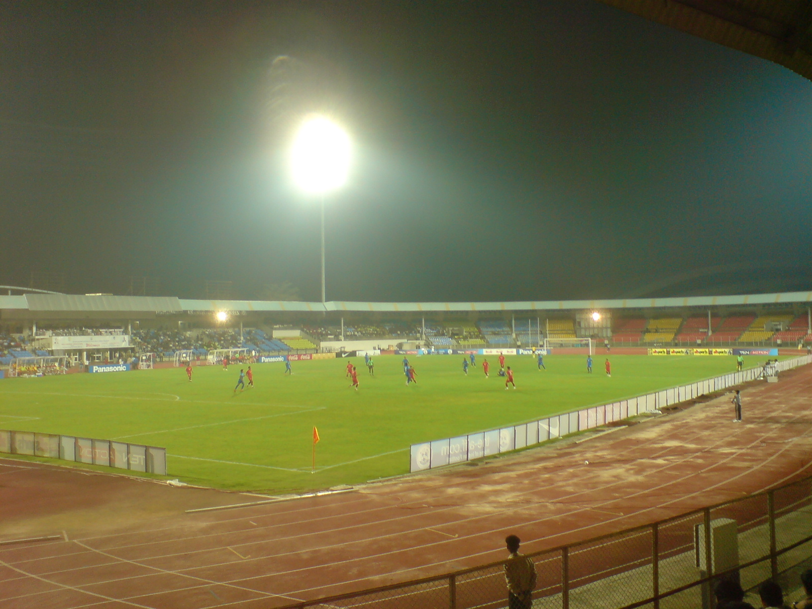 A football match between India and Vietnam being played at the Athletics Stadium in the Shree Shiv Chahatrapati Sports Complex at Balewadi, Pune.